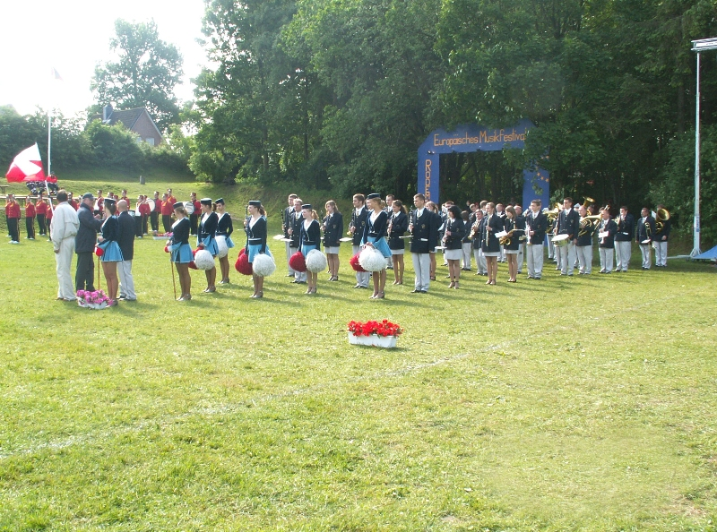 Ugrupowanie marszowe